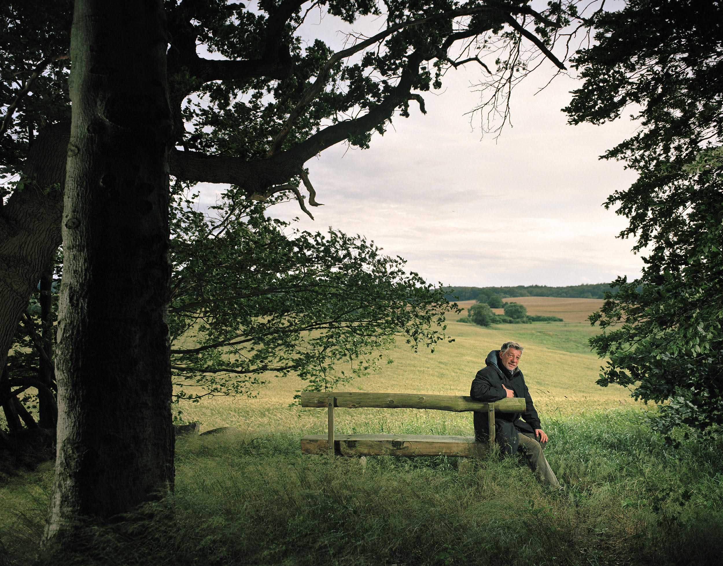 Botho Strauß portrayed by Oliver Mark, Uckermark 2007